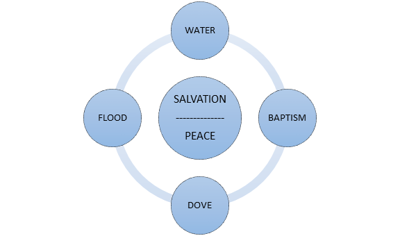 Diagram showing the relationship between the Flood in the Old Testament and Christian baptism, as understood by Tertullian in On Baptism.